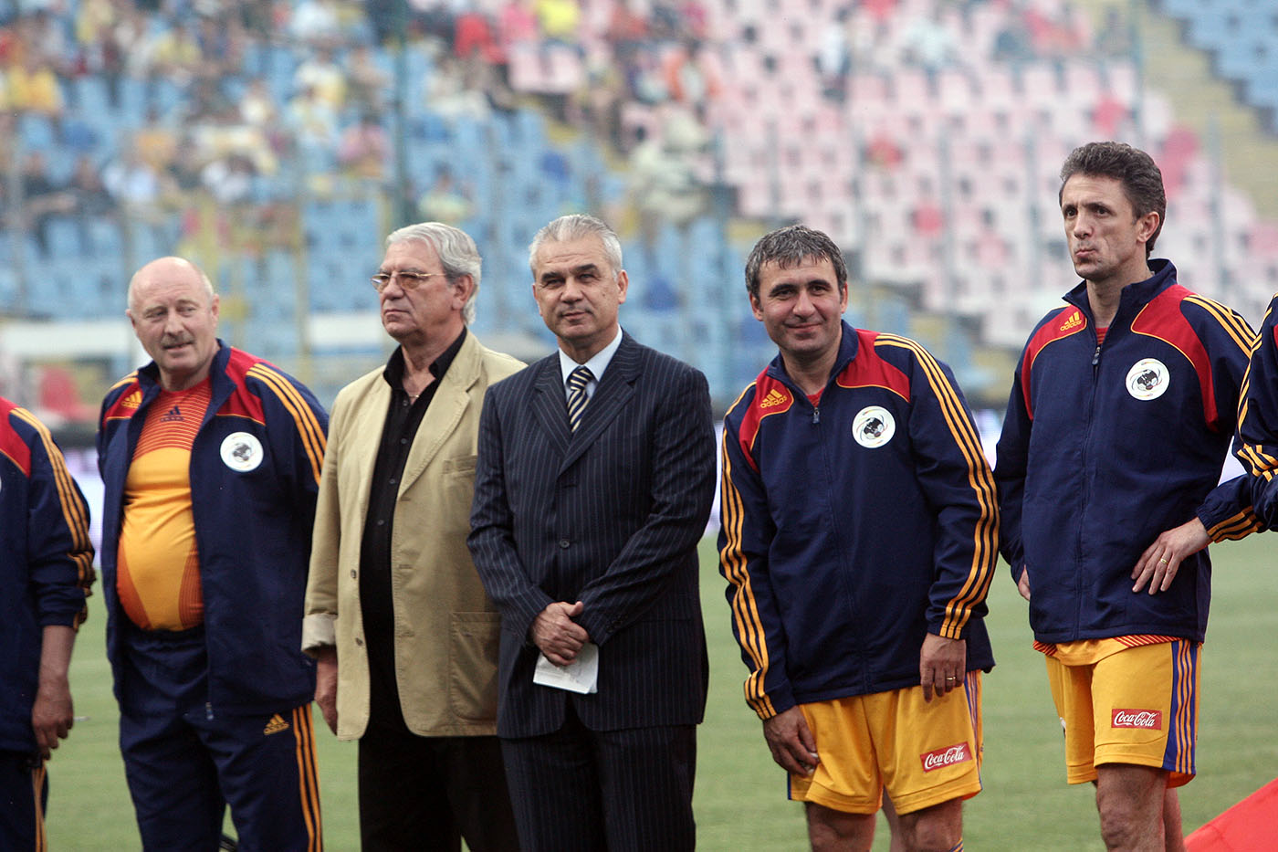 Ienei, Iordanescu, Hagi, Popescu